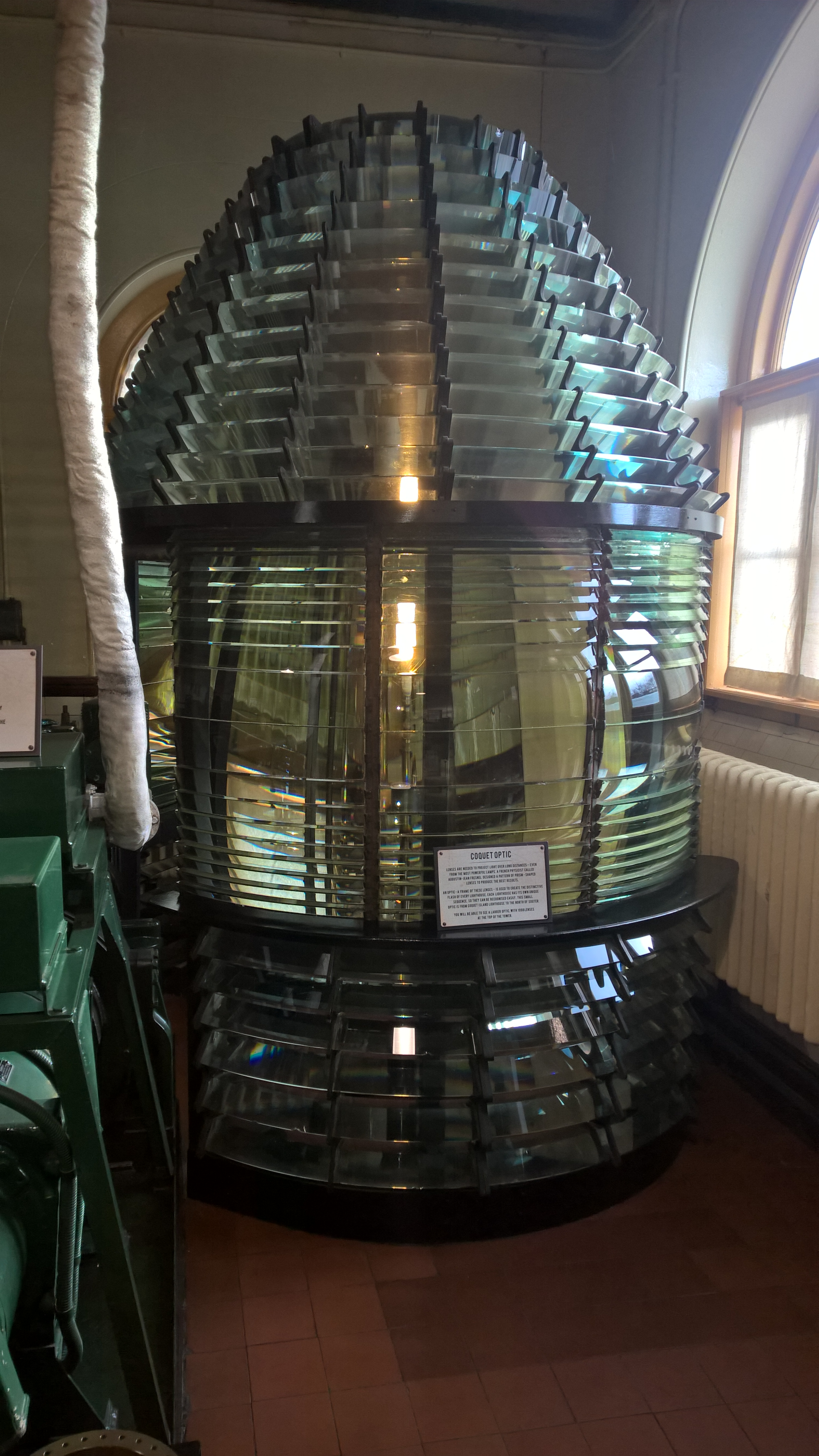 The old 1st-order fixed catadioptric optic from the lighthouse on Coquet Island, off the coast of Northumberland, is now on display in the engine room of Souter Lighthouse near Sunderland.